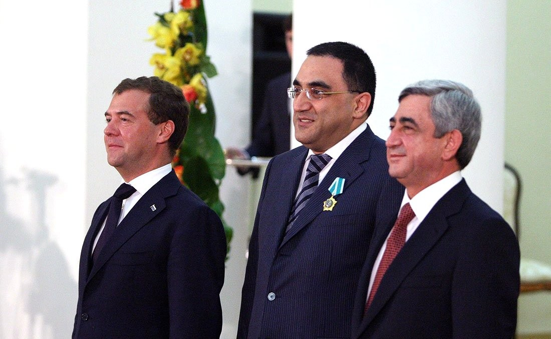 Yerevan. Armenia. August 20, 2010. Russian President Dmitry Medvedev, Armen Darbinian (with the Order of Friendship) and the President of Armenia Serzh Sargsyan